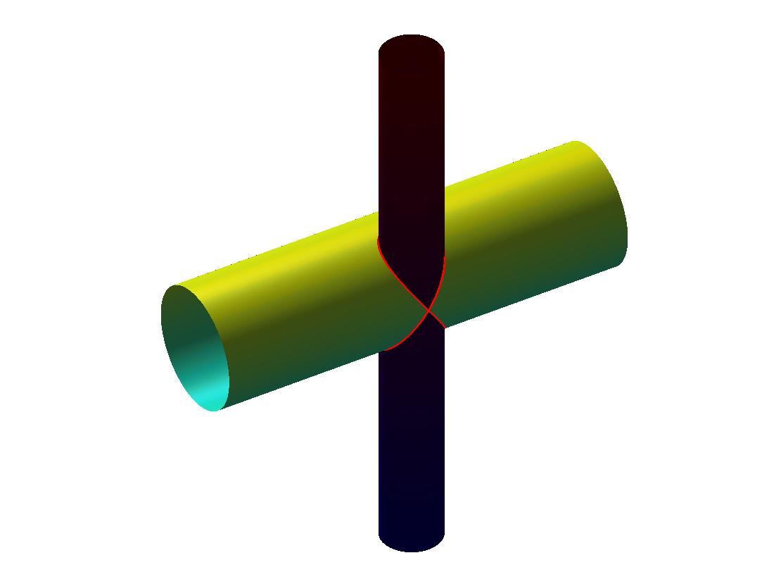 Intersection of two perpendicular and tangent cylinders of radius r and 2r. Produced by a student to be used in the course Alfgebraische Kurven (Osnabrueck 2008) on german Wikiversity.